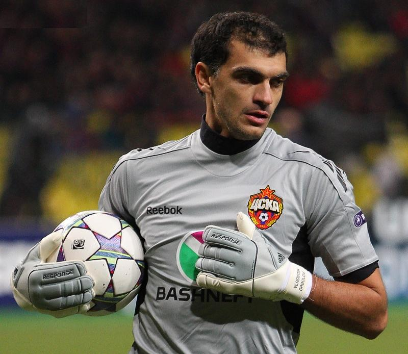 Vladimir Gabulov playing for CSKA Moscow in an UEFA Champions League against Trabzonspor in 2011.